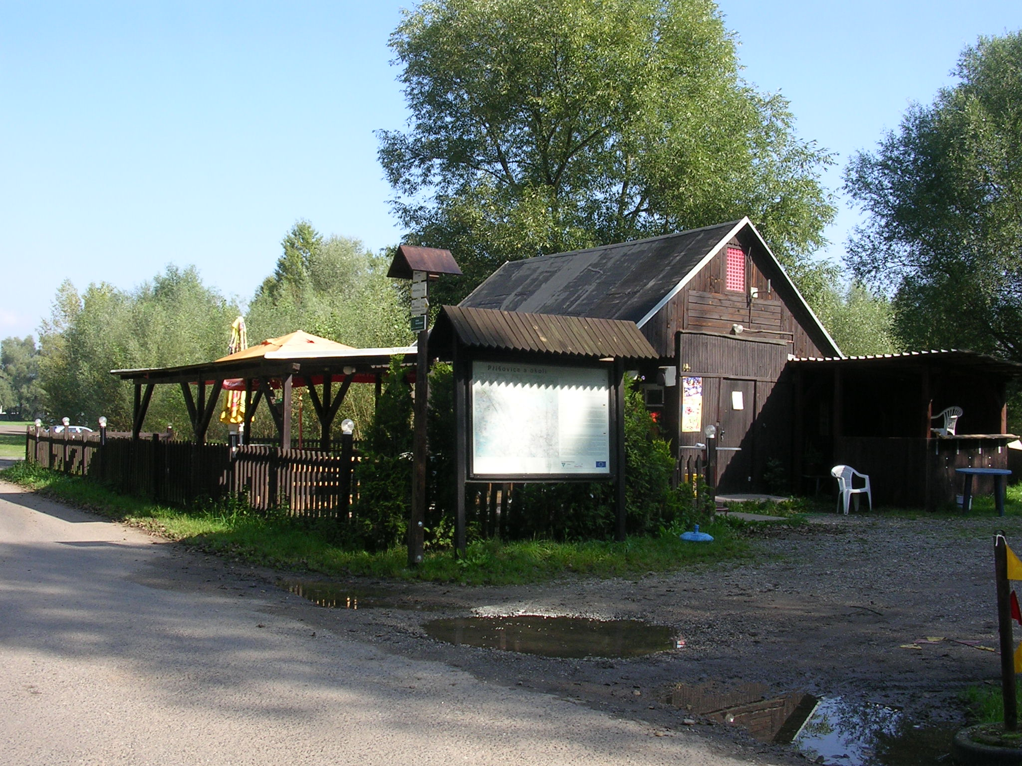 Příšovice, Liberec District, Liberec Region, the Czech Republic. A shop near Písečák lake.